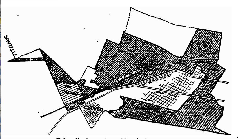 Map printed in Los Angeles Times of May 24, 1914 (copyright expired). "Palms district as changed by new boundary lines. The shaded portions indicate the region which it is now proposed to annex to Los Angeles and were a hot campaign is waged preliminarily to an election June first. The dotted lines show the boundaries of the original district where annexation failed by a narrow margin in last month's election. The territory cut out from the district as first defined cast a strong negative vote at the election."